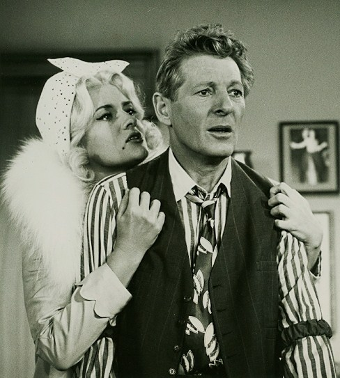 Joyce Van Patten & Danny Kaye in The Danny Kaye Show - publicity still (cropped)